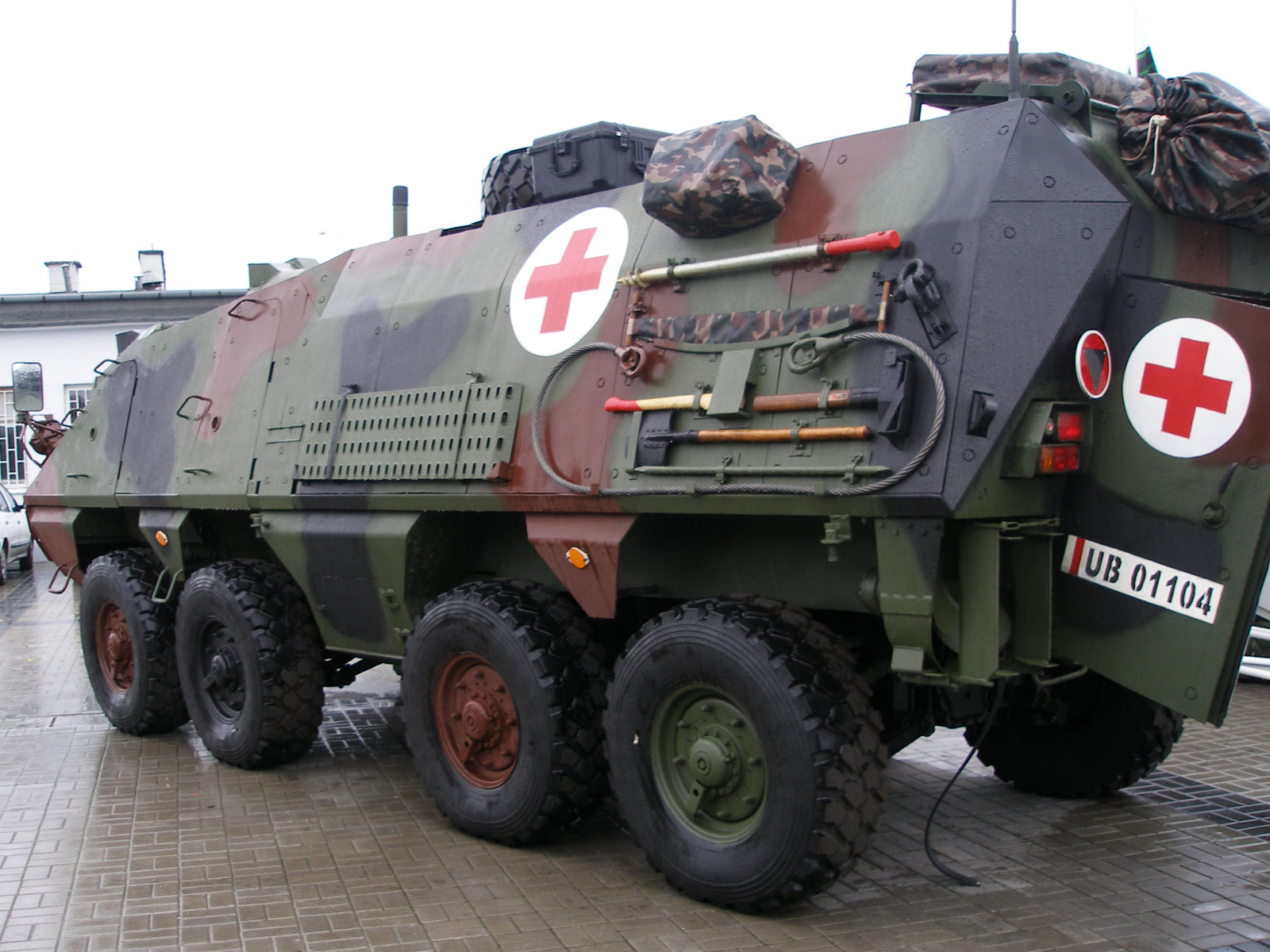 Polish military ambulance Ryś MED